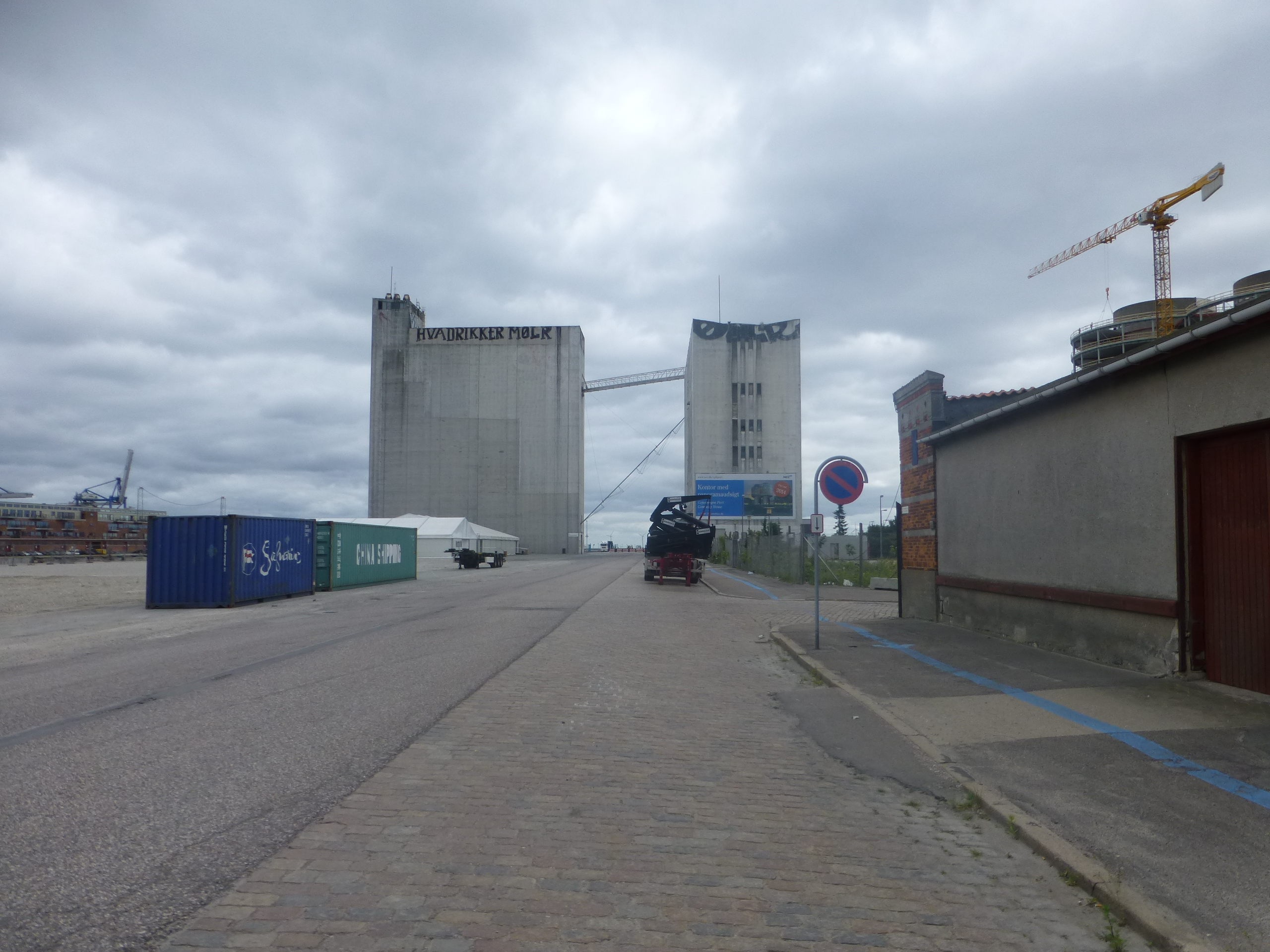 The street Lüdersvej in Nordhavn in Copenhagen. In 2014 the name was changed to Helsinkigade.